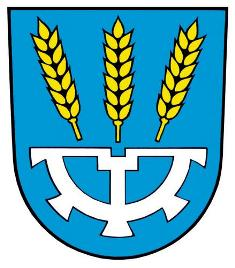 Blazon of Uzwil, Canton of St. Gallen - Blazono de Uzwil, Kantono de Sankt-Galo